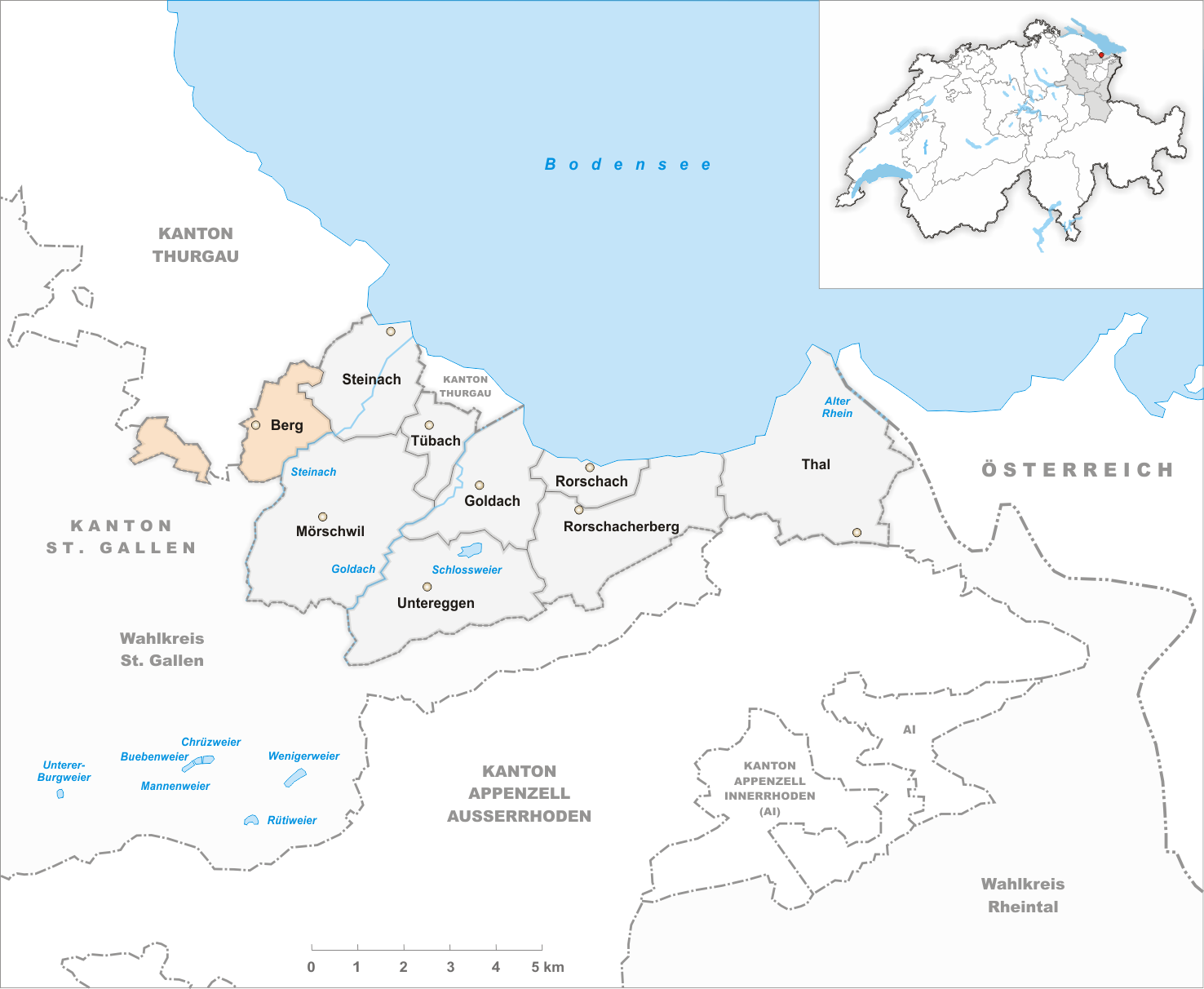 Municipality Berg